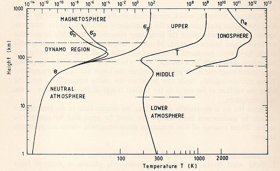 Nomenclature of thermosphere